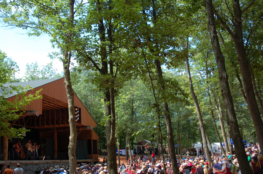 Mountain Heart plays on the main stage of the Minnesota Bluegrass & Old-Time Music Festival in August 2008.